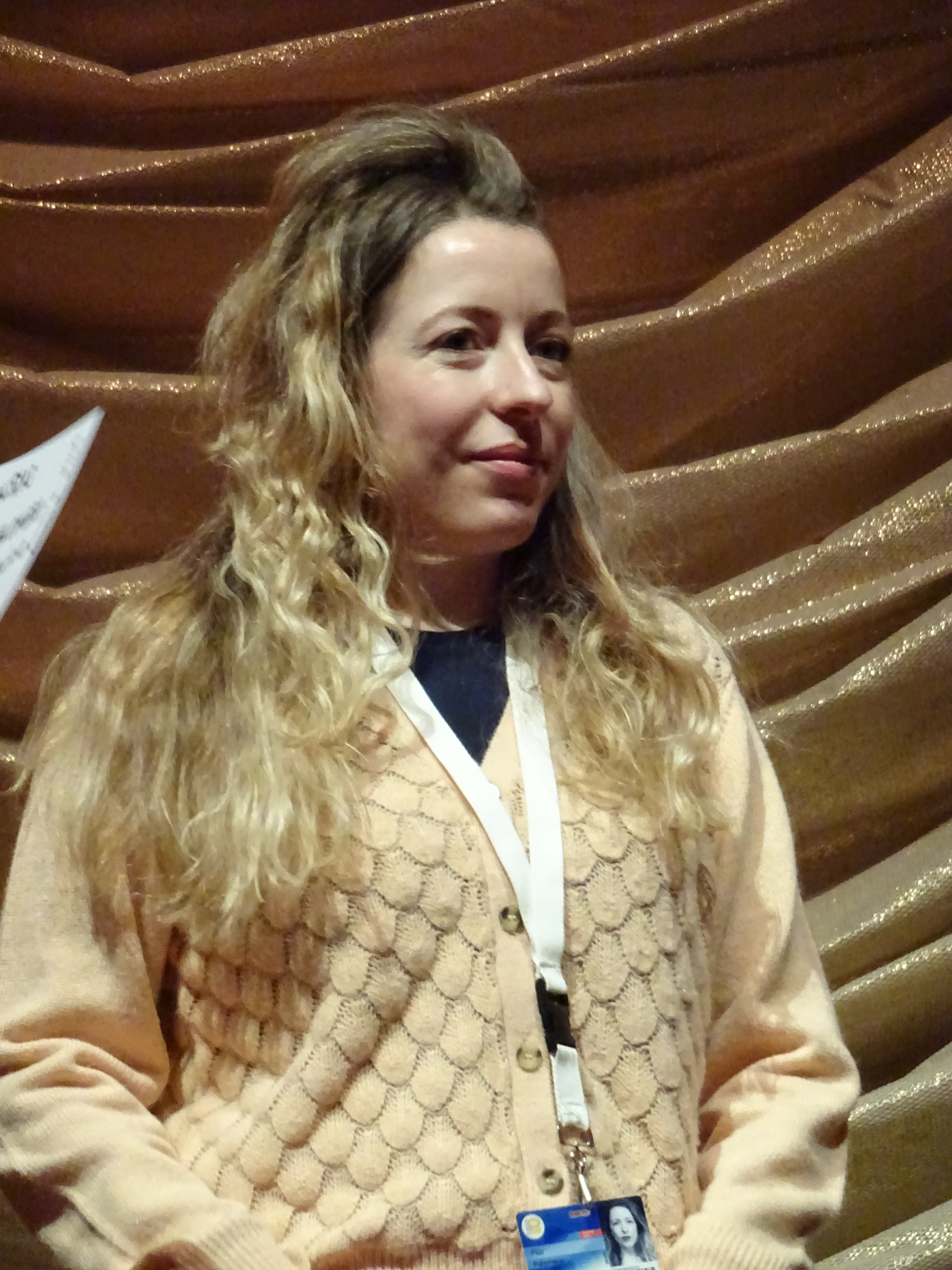 Spanish film director Pilar Palmomero at a Q&A at Berlinale 2020, Berlin